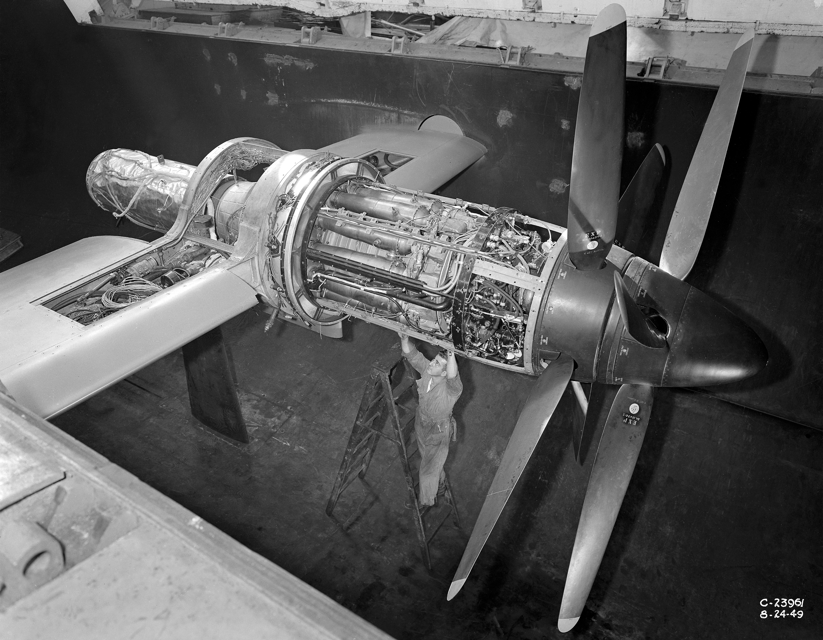 Armstrong Siddeley Python turboprop engine during wind tunnel testing An engine mechanic checks instrumentation prior to an investigation of engine operating characteristics and thrust control of a large turboprop engine with counter-rotating propellers under high-altitude flight conditions in the 20-foot-diameter test section of the Altitude Wind Tunnel at the Lewis Flight Propulsion Laboratory of the National Advisory Committee for Aeronautics, Cleveland, Ohio, now known as the John H. Glenn Research Center at Lewis Field.